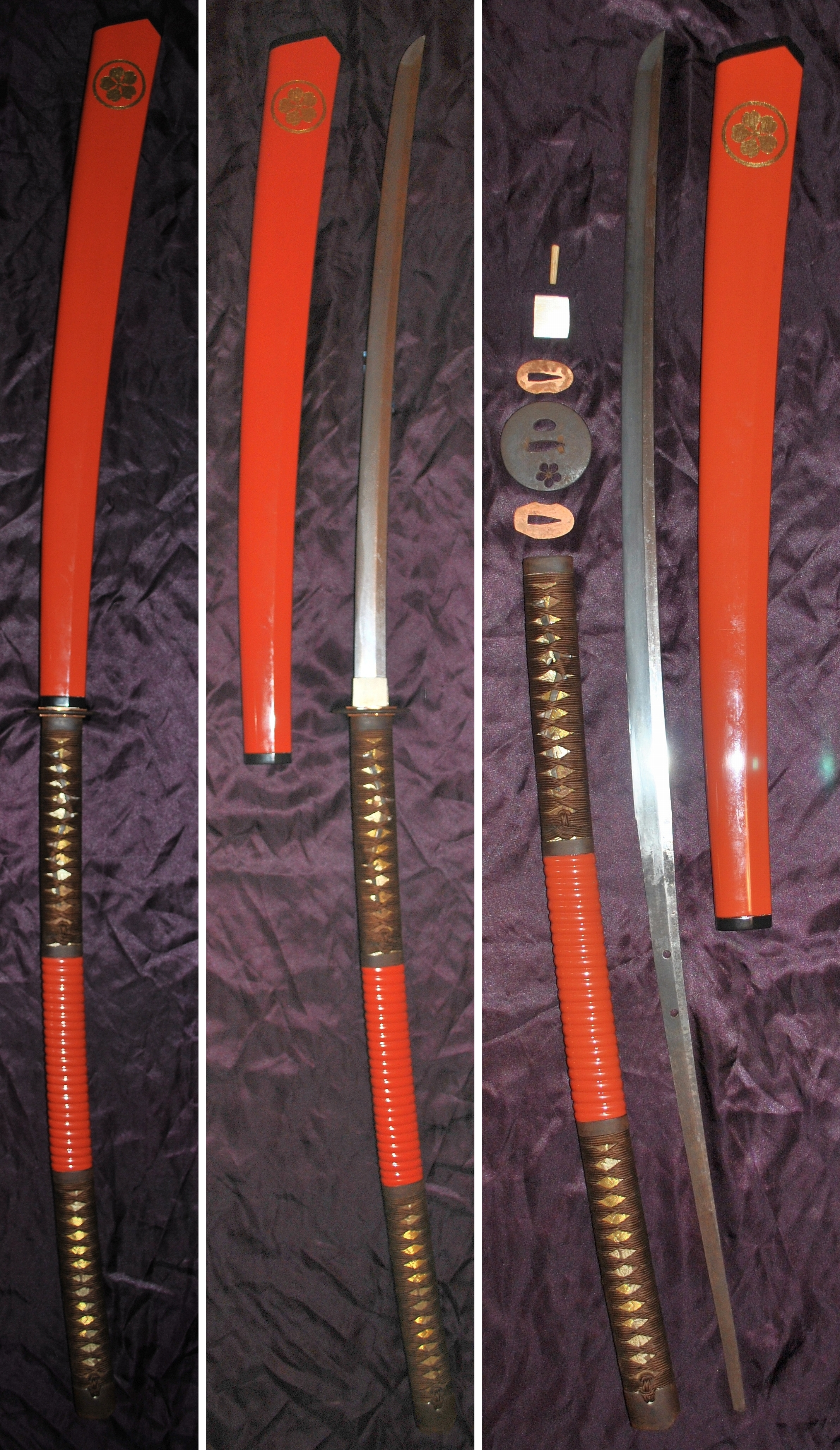 Shinto era nagamaki, 54 in koshirae, 52 in from tsuka to tip, 19.75 in nakago, 26.75 in tsuka, 24 in cutting edge.